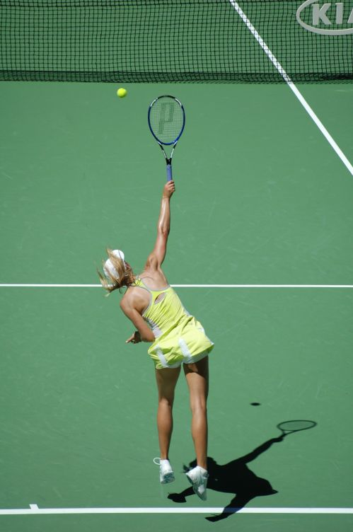 Sharapova serving. 2005 Australian Open